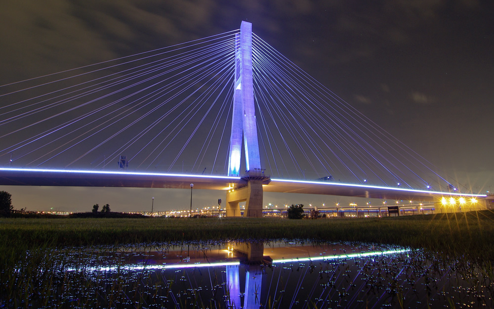 New Taipei Bridge at night. 中文（台灣）: 夜晚的新北大橋。